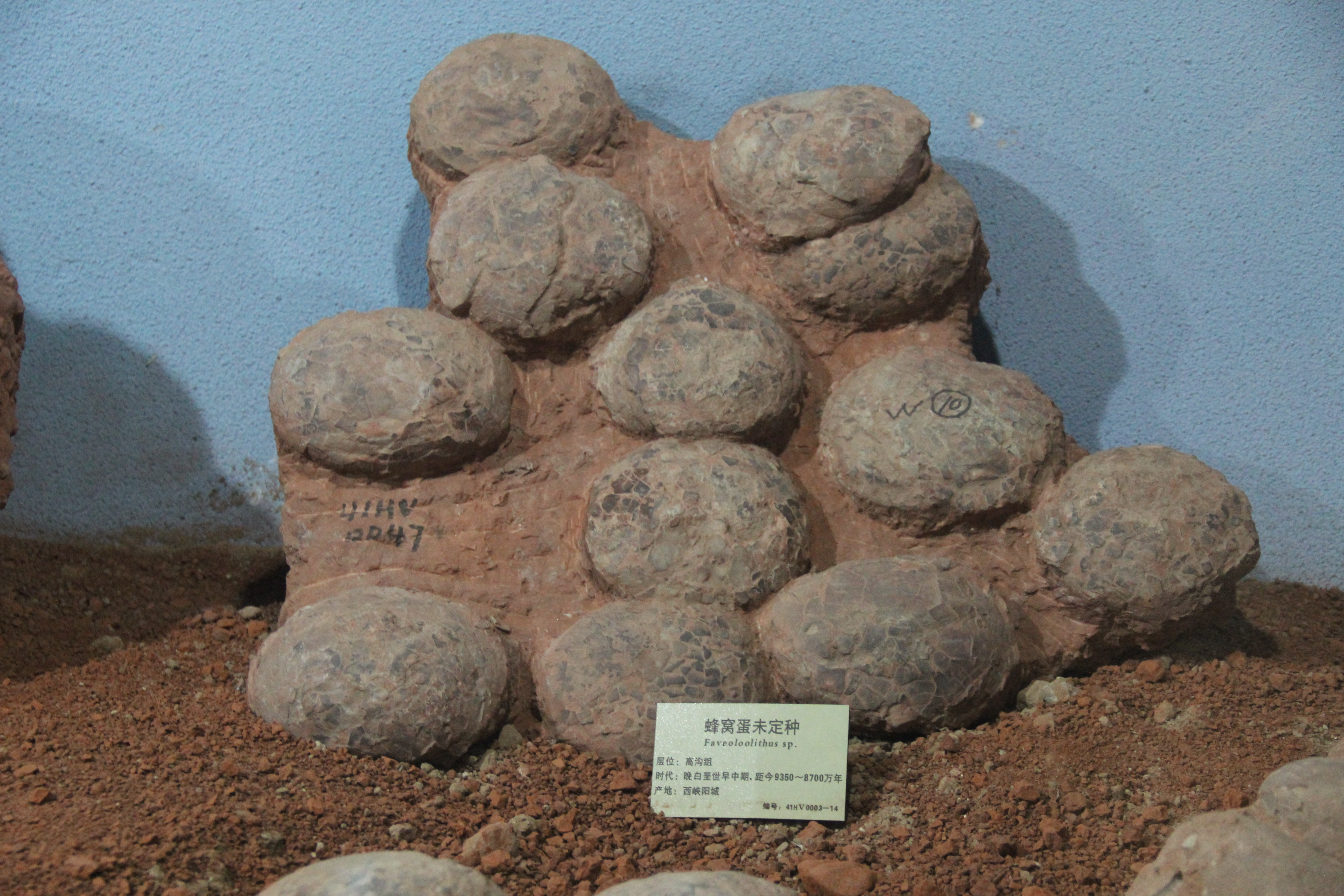 Henan Geological Museum, Zhengzhou, China. Complete indexed photo collection at .